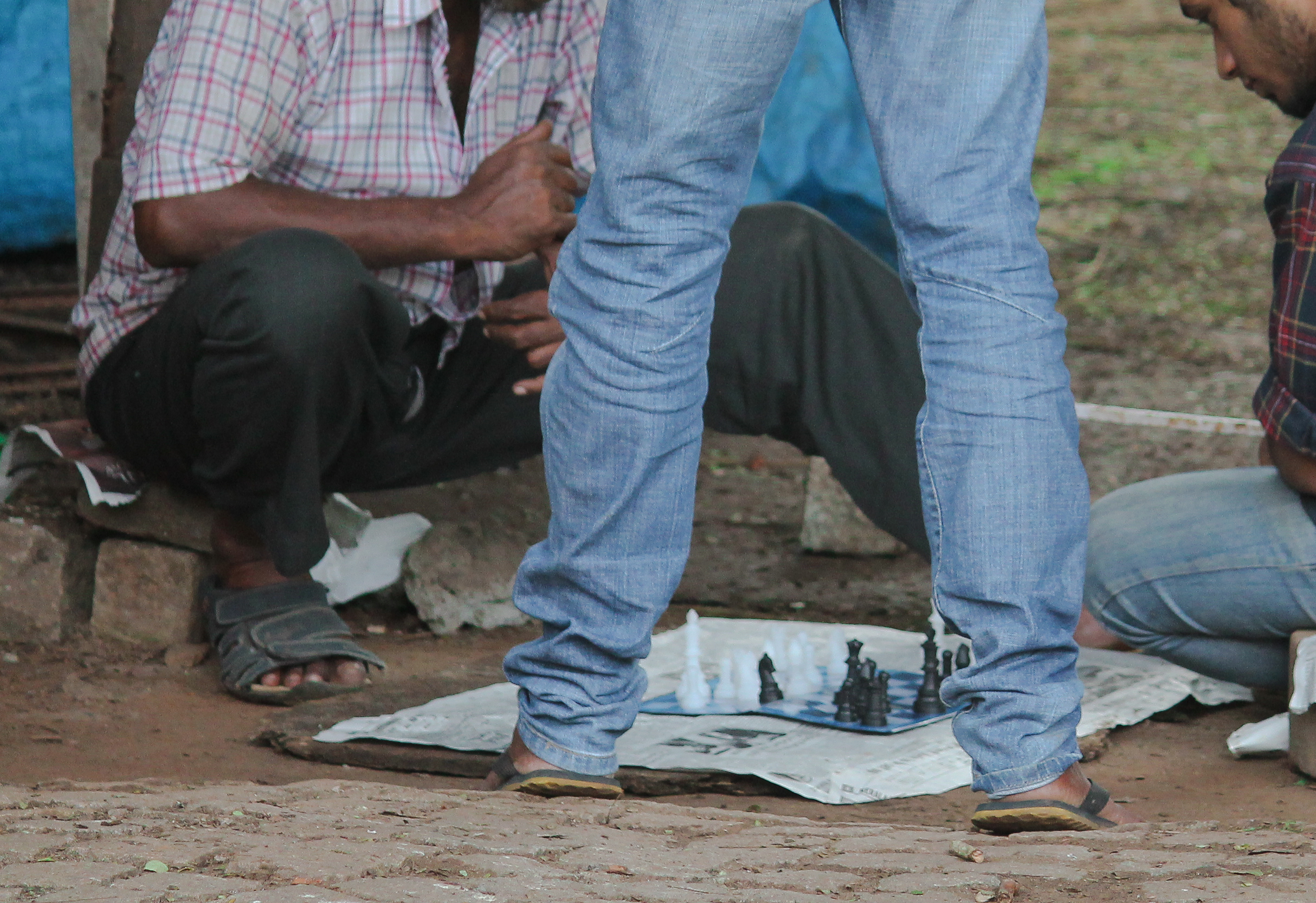 Chess game by the roadside, Kochi, Kerala, India